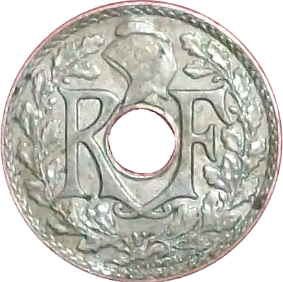 French Coin value of 25 Centimes dating to 1922. Front Side. Caption: RF (=République française). Symbol: oak leaf wreath; phrygian cap.